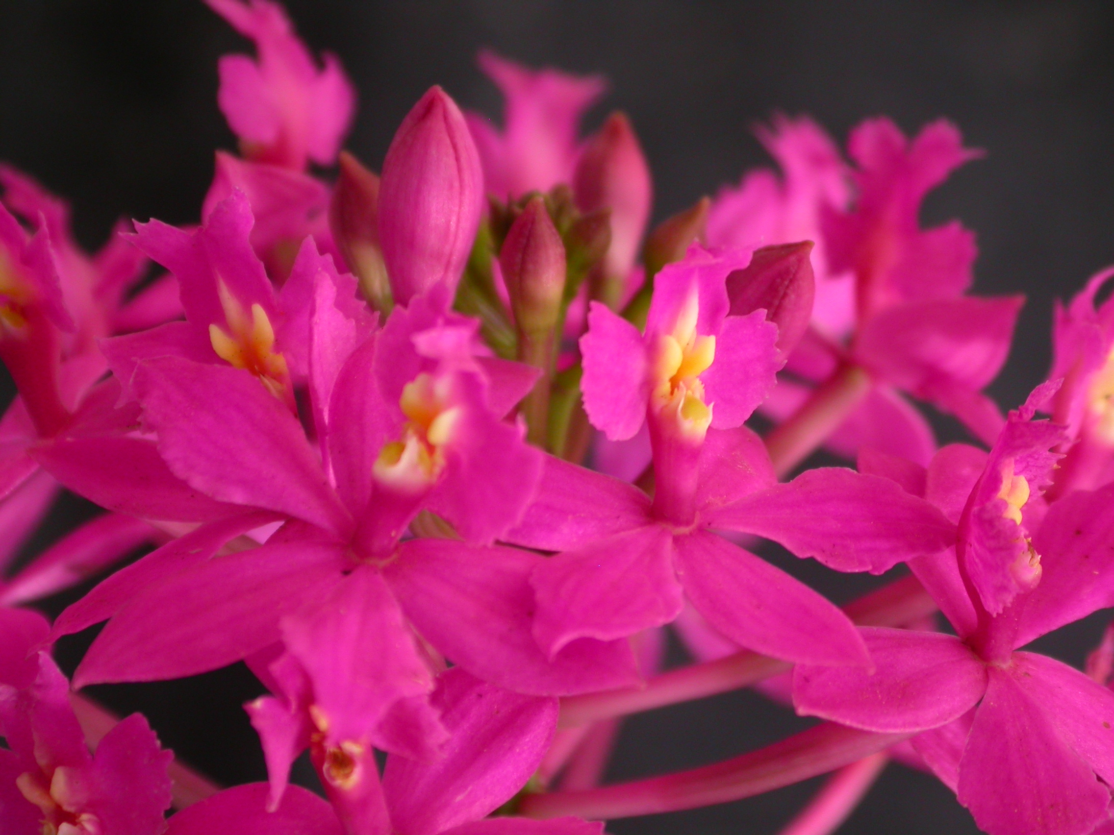 Epidendrum denticulatum